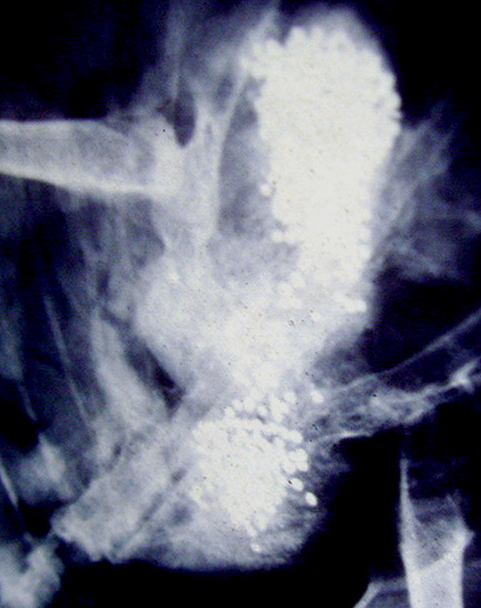 Radiography of swans found dead in the Audomarois marsh (north of France), highlighting a large number of lead shot from hunting cartridge, and ingested with the Grit. The swans that feed in front of hunters's huts or in front of shooting positions are very frequently victim of "waterfowl lead poisoning". Here the number of lead is exceptionally high (some hundreds), and caused the death of the animal (12 small lead pellets are enough to kill an adult swan within a few days. The poisoned swans were also more likely to collide with an obstacle (power line, for example) or vehicle. Their body will be a new source of environmental contamination of toxic lead. It is noted that a new swan population has recovered in the late 1990s in the marsh audomarois, but it feeds mainly on land, which is a source of conflict with the gardeners who cultivate drained areas and emergent marsh (Is this an adaptive behavior ?, the result of natural selection ?, with the appearance of a new behavior limiting the risk of ingesting lead pellets) It should be noted that the occurrence and prevalence of lead poisoning avian sontplus higher in Europe and North America where they were first studied. See data collected by RAFAEL MATEO (Instituto de Investigación en Recursos Cinegéticos IREC, CSIC, UCLM, JCCM) for his presentation WILD BIRDS IN Lead Poisoning IN EUROPE AND THE REGULATIONS ADOPTED BY DIFFERENT COUNTRIES upon Conference entitledIngestion of Spent Lead Ammunition; Implications for Wildlife and Humans (organized by the "Peregrine Fund" (Boise State University Idaho. May 12-15, 2008). Proceedings of the conference, which led to the book: [https: / / / 3382279 Ingestion of Spent Lead Ammunition from: Implications for Wildlife and Humans, co-written by Richard T. Watson, Mark Fuller, Mark Pokras, Grainger Hunt] 2009/04/28; ISBN/EAN13: 0961983957 / 9780961983956, 394 pages.